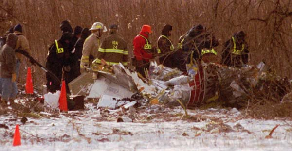 Photo at crash site - NTSB Docket Photo